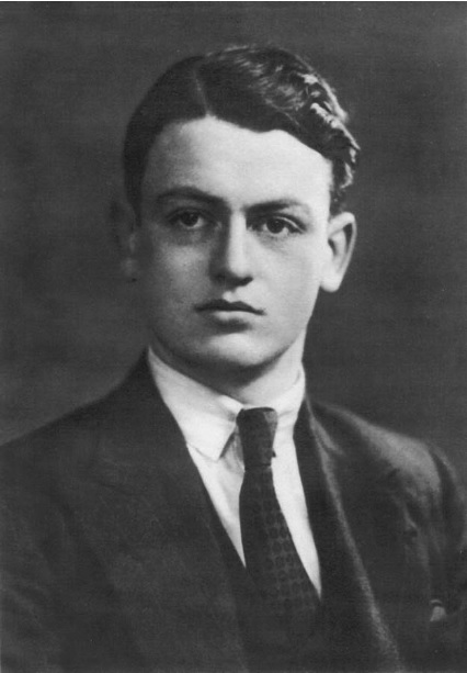 Portrait photograph of Timothy John Manley Corsellis